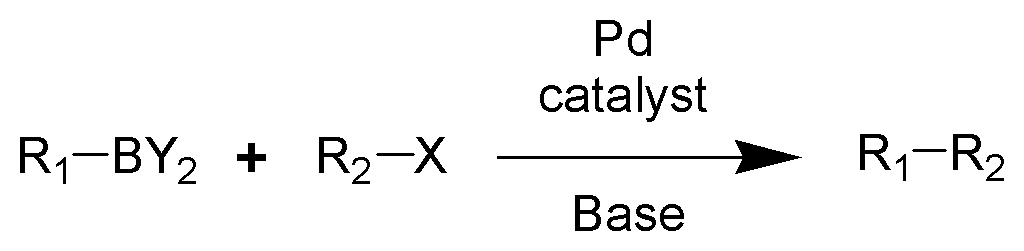 Reaction scheme of the Suzuki reaction.